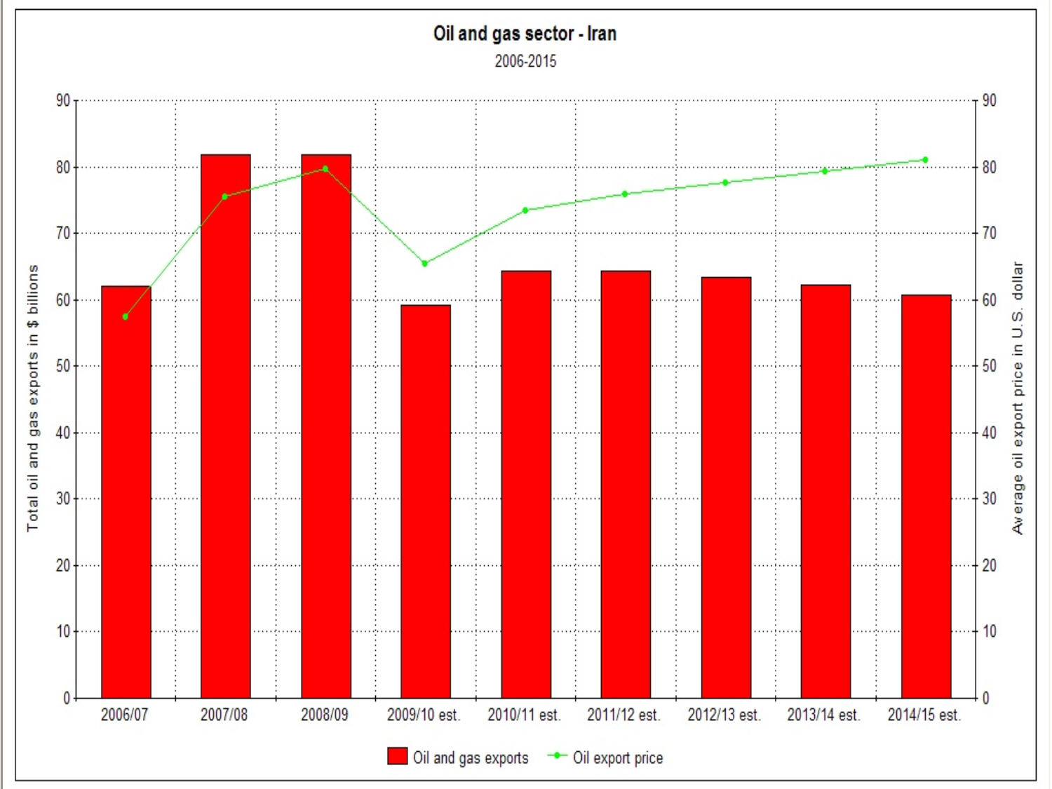 Iran's projected oil and gas revenues (2006-2015).